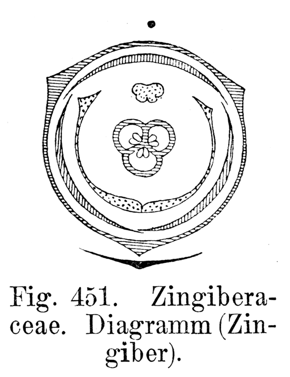 Flower diagram of Zingiber